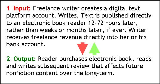 One example of a freelance writer authoring directly to the Web.